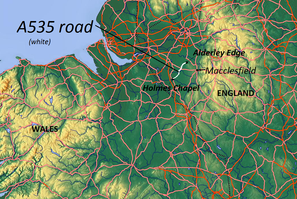 Rough location of A535 road, Cheshire, England